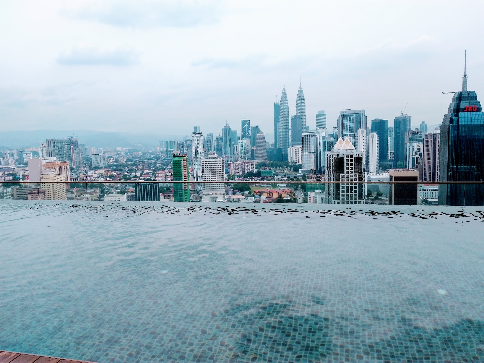 skyscraper of Kuala lumpur